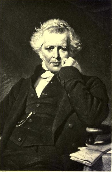 Portrait of Henry Venn (1796-1873), Anglican clergyman and administrator. From Memoir of Henry Venn, B.D. by William Knight (1882).